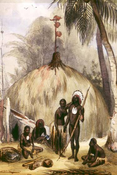 Duppa is wearing a red wig and is seated with his wife Panney. His oldest son, also Duppa, is standing with his new wife, an Erub girl, c 1842-43. Pl. no. 18 of: Sketches in Australia and the Adjacent Islands by Harden S. Melville. Tinted lithograph with some hand colouring. London: Printed and published by Dickinson & Co. c 1849